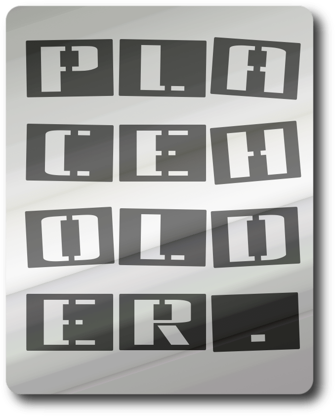 An image meant to be a placeholder for other images.